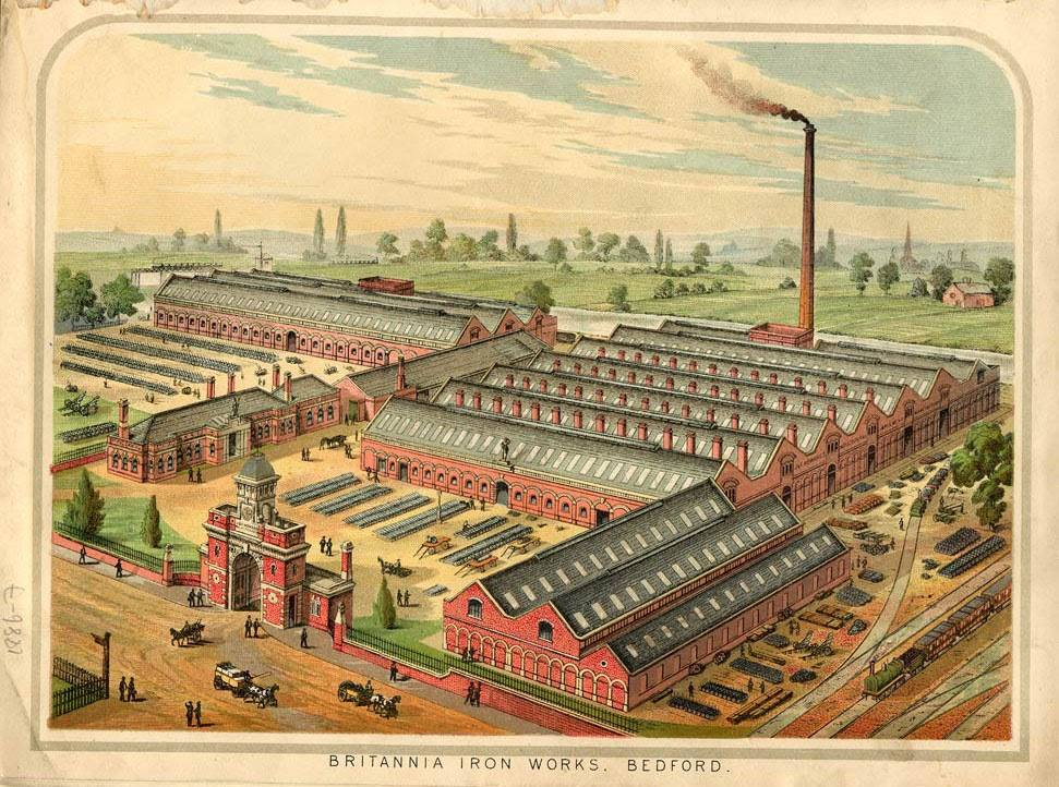 J&F Howard Catalogue 1887